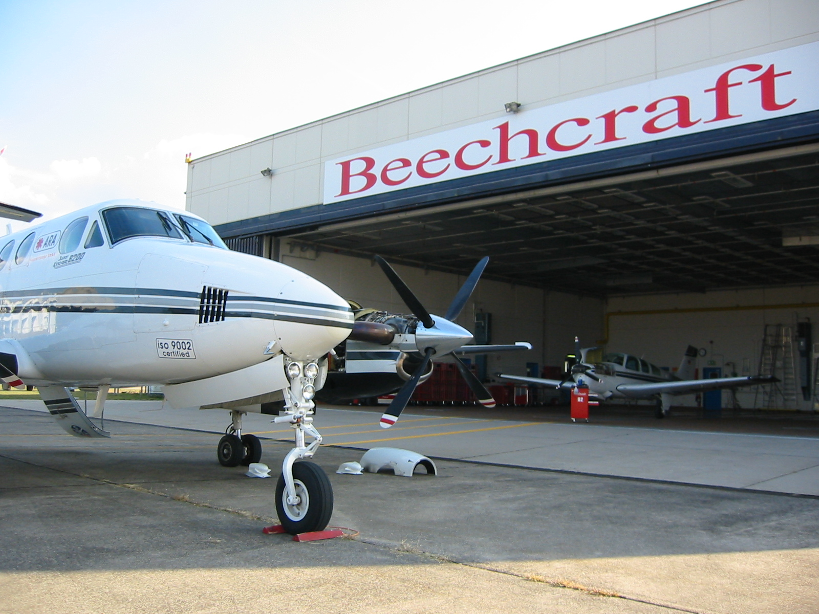 Maintenance hangar of Beechcraft Baden-Baden, another facility of Beechcraft Vertrieb & Service GmbH, 1990